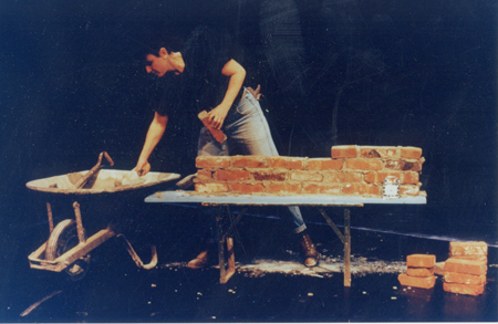 Marty in construction.